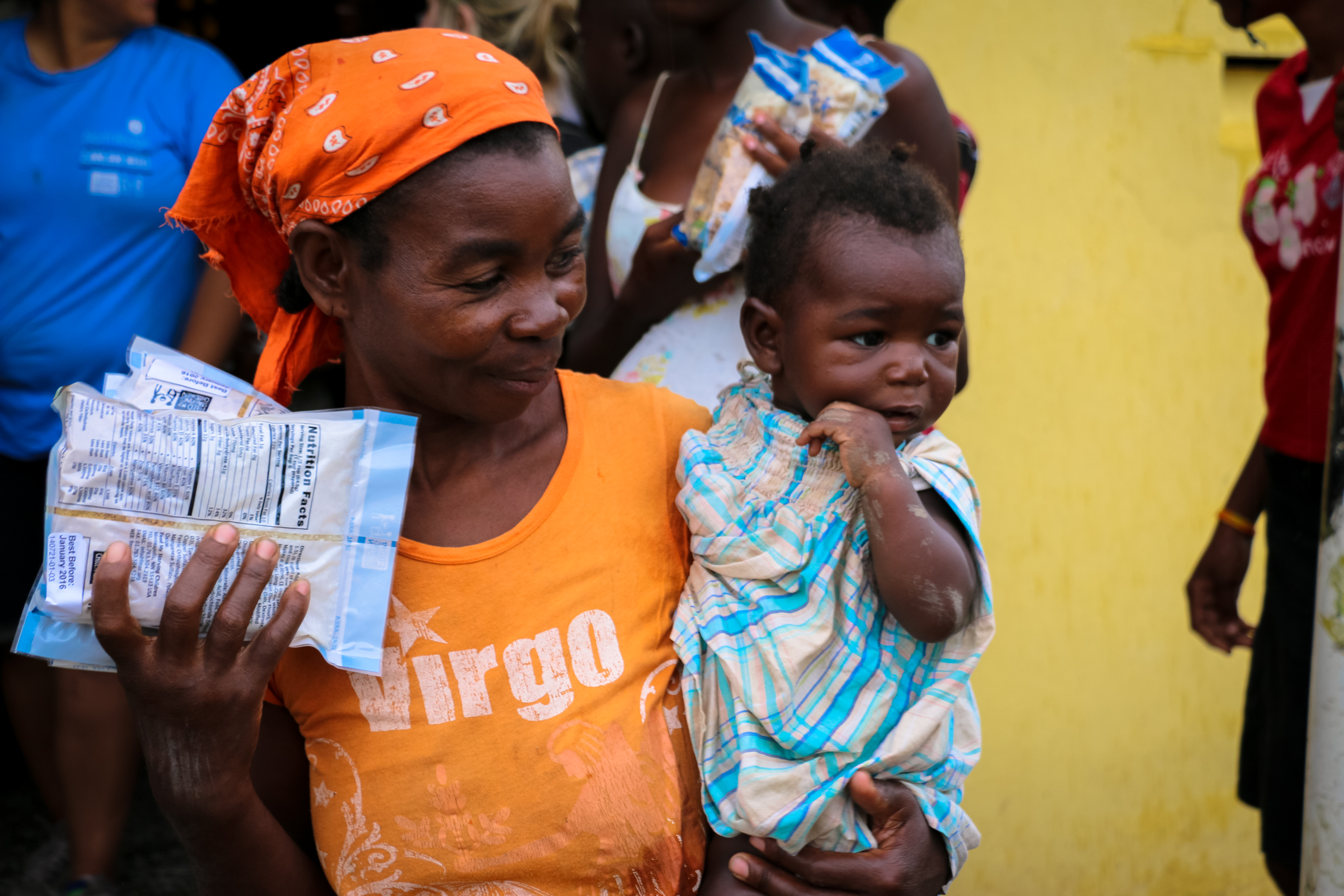 For more info on Feed My Starving Children, please visit